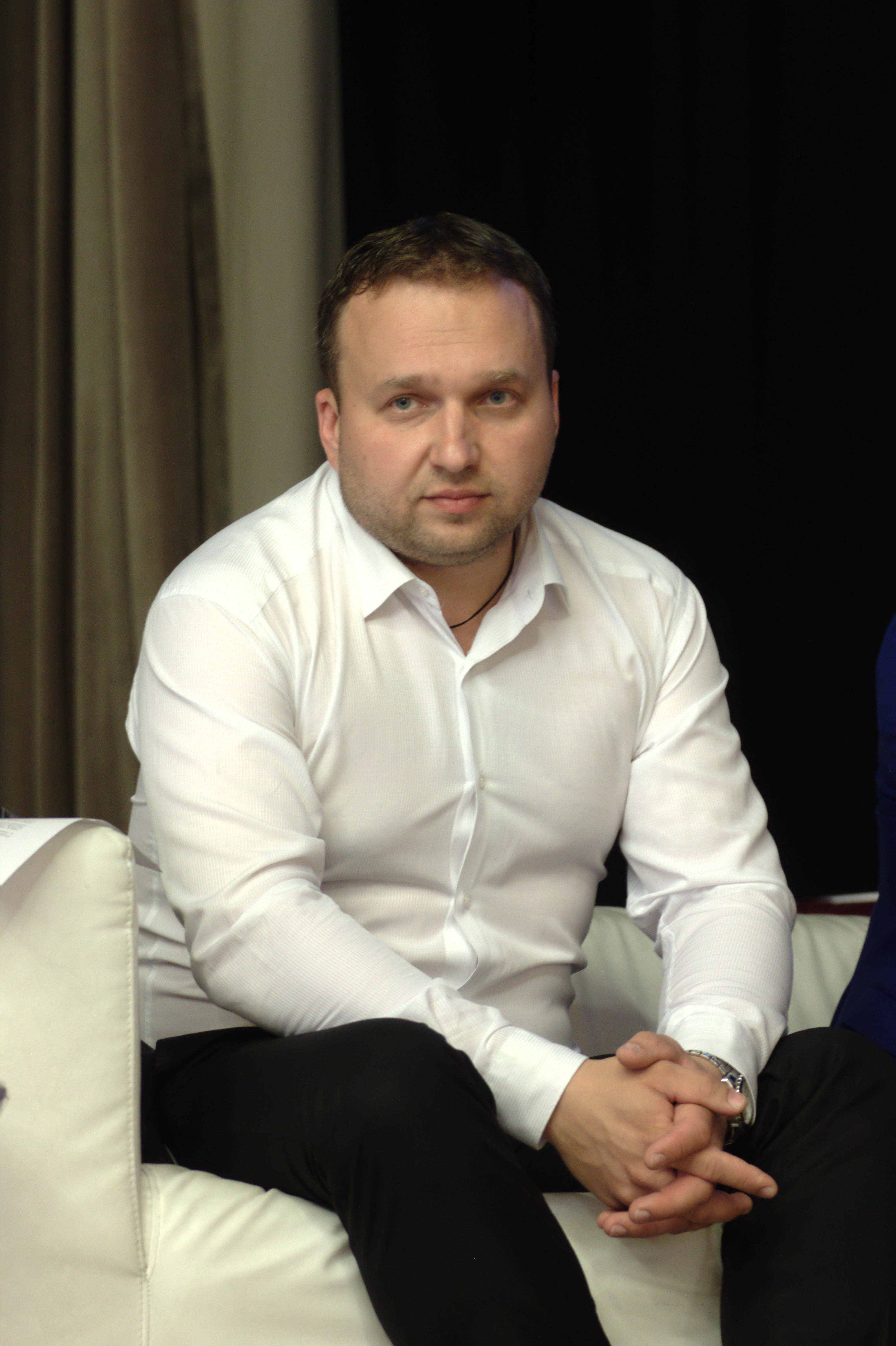 Marián Jurečka during the Retailcon conference in Prague, CZ